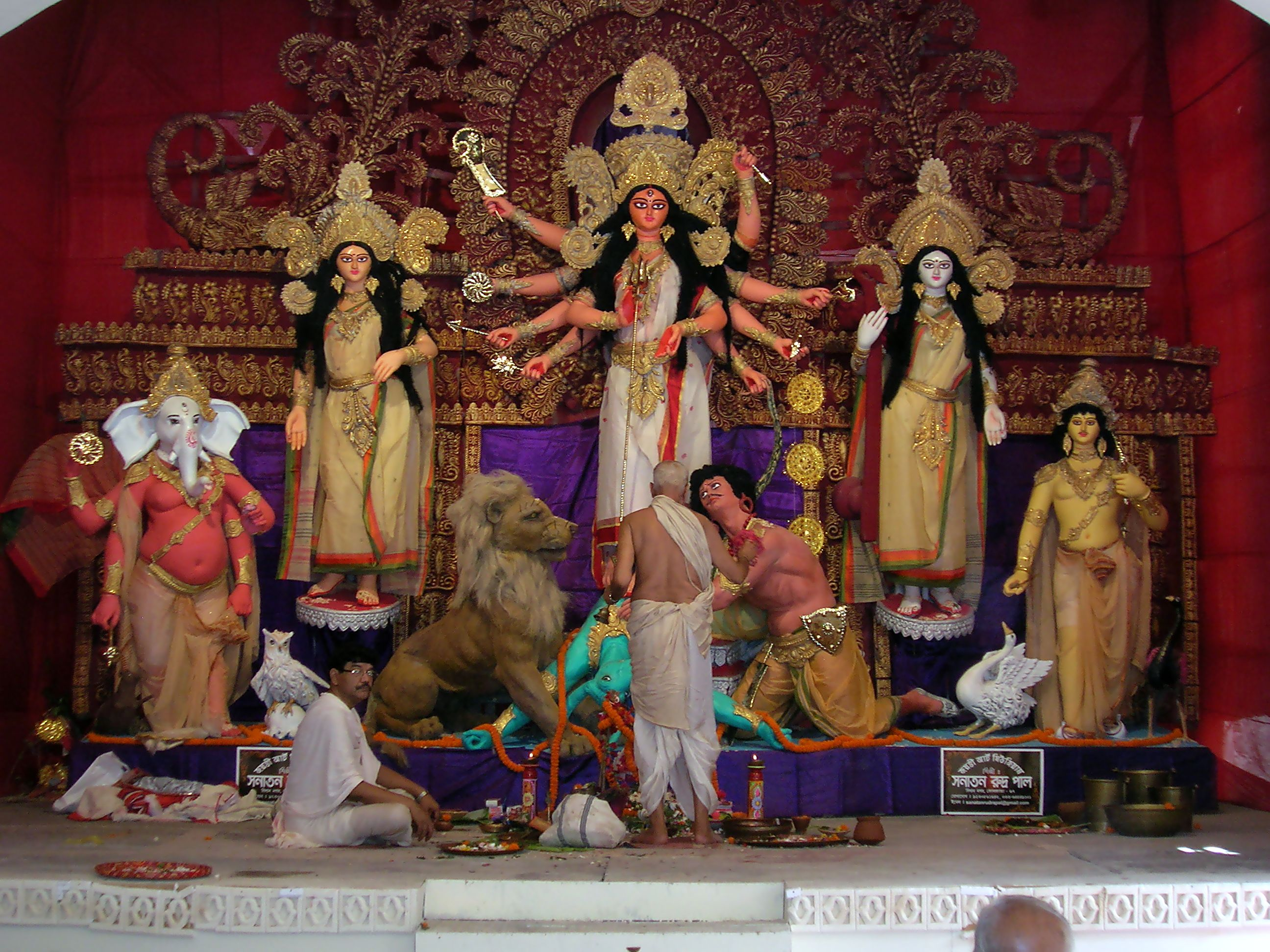 Mahashtami Puja, Durga Puja at Bakul Bagan Sarbojanin, South Kolkata.